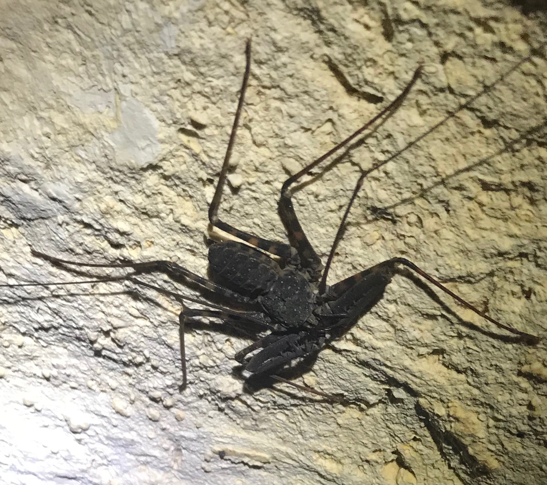 A tailless whipscorpion (amblypygid), family Phrynidae, probably Phrynus, in Giri Putri cave, Nusa Penida